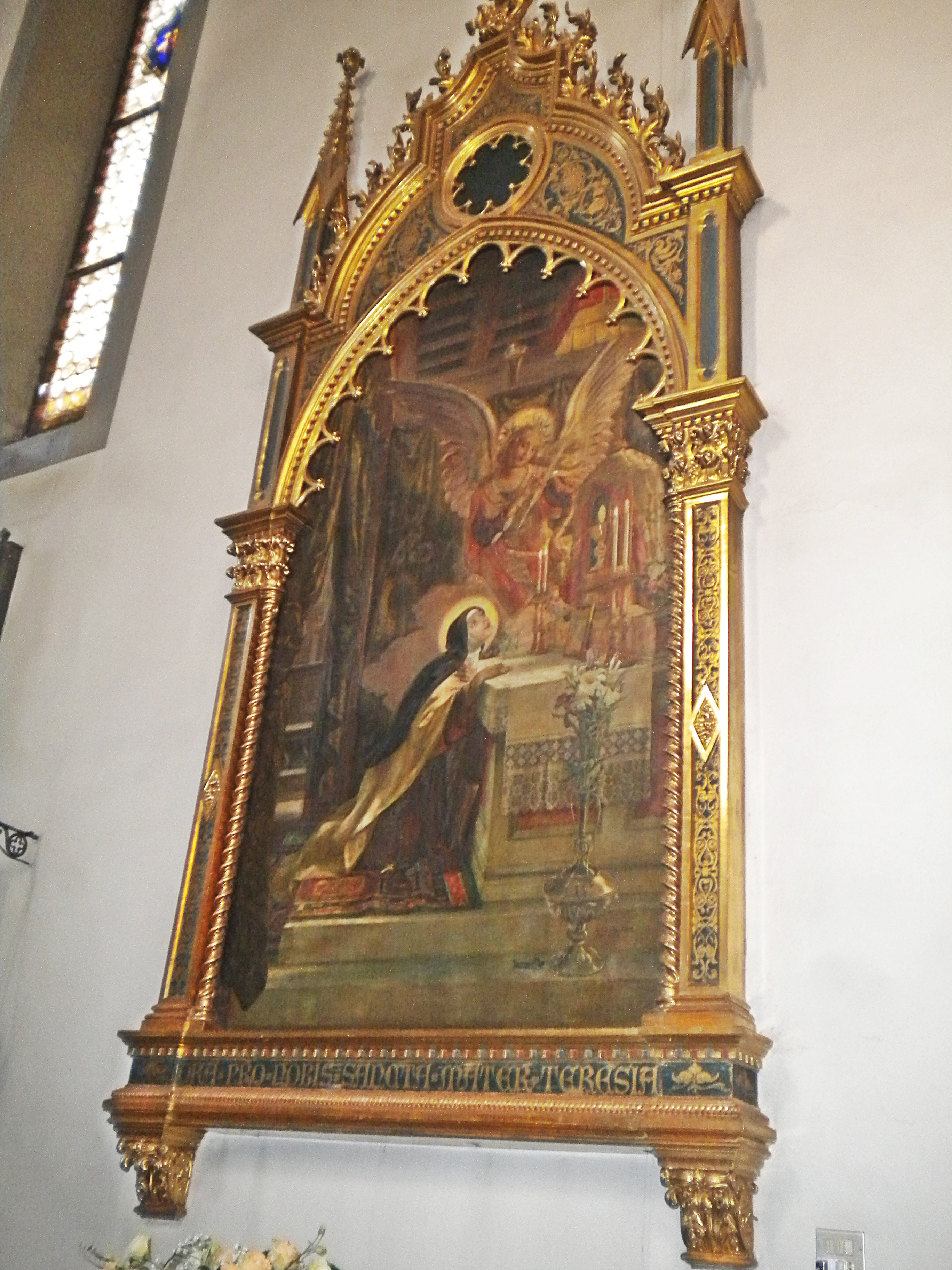 painting